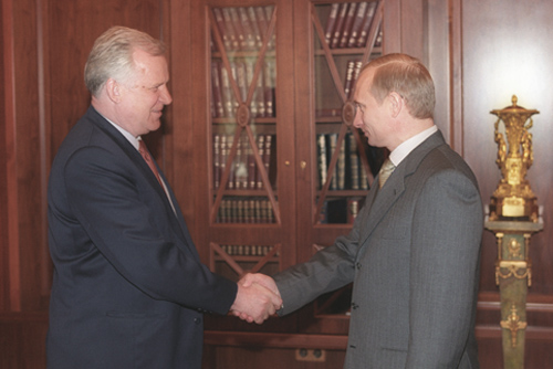 THE KREMLIN, MOSCOW. Vladimir Putin with Nikolai Ryzhkov, State Duma deputy and former Chairman of the USSR Council of Ministers.